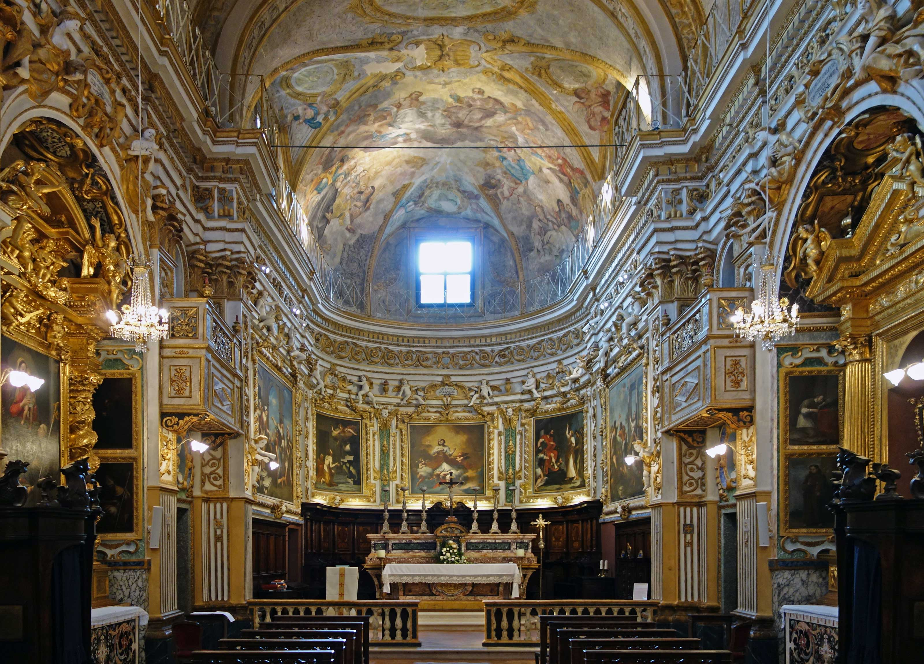 Interior of the Santa Lucia church in Serra San Quirico (IT)